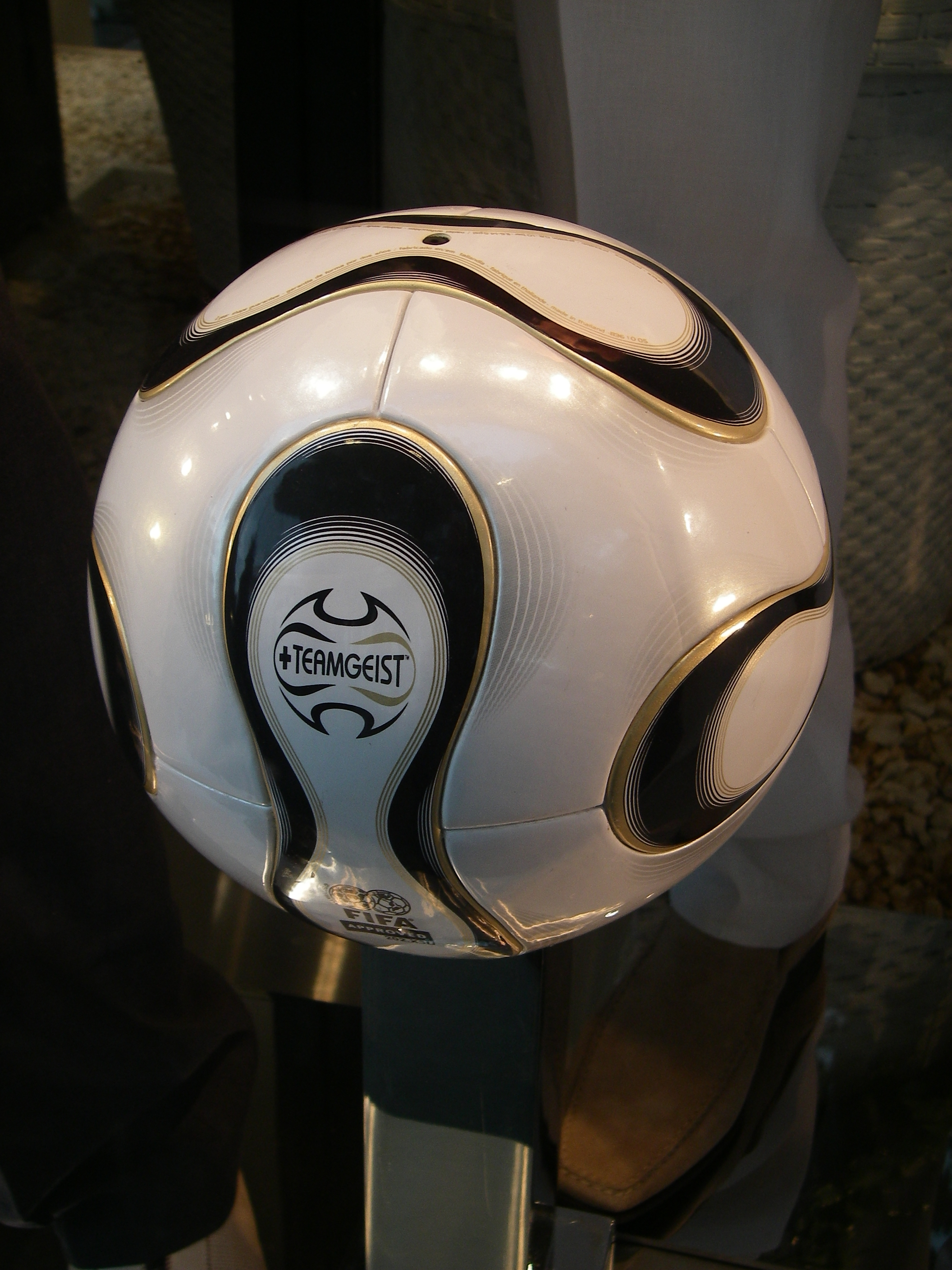 A soccer ball that is "thermally bonded"